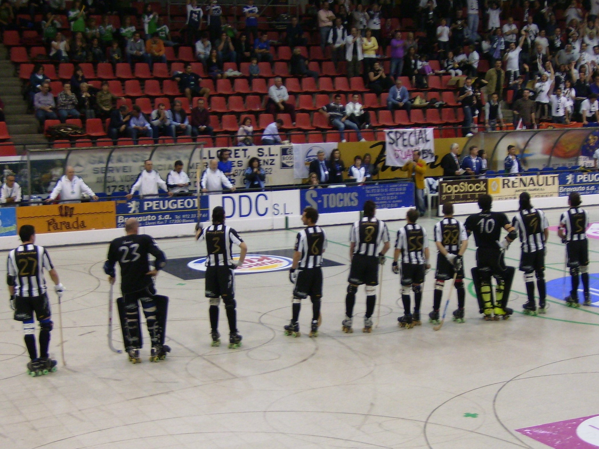 2008-09 CERS Cup Final Four (Lloret de Mar, Catalonia) - CGC Viareggio